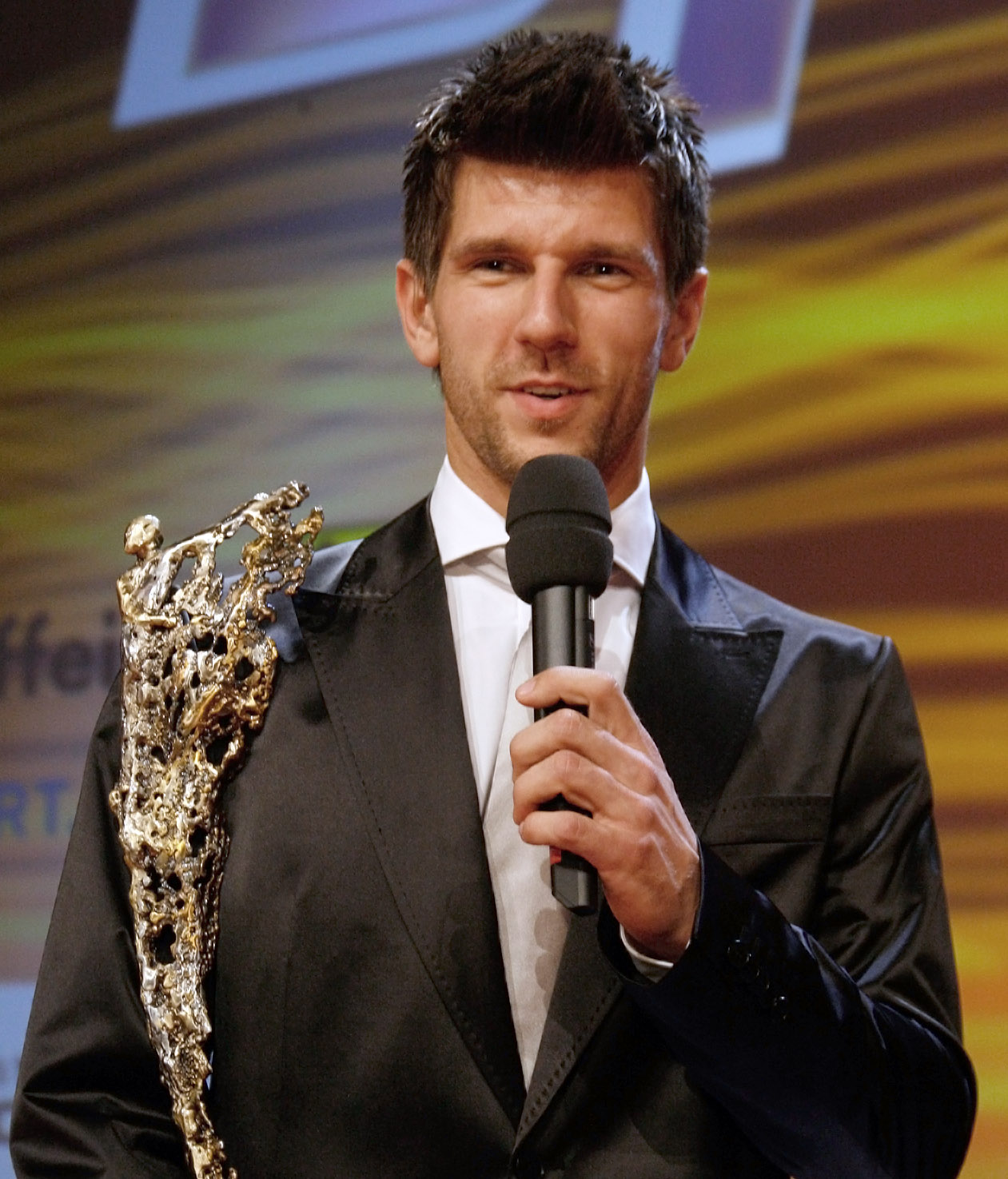 Jürgen Melzer with his award at the presentation of the Austrian Sportspersonalities of the Year 2010 (Eventhotel Pyramide in Vösendorf, Lower Austria).